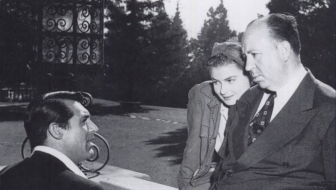 Cary Grant, Ingrid Bergman & Alfred Hitchcock on the set of the spy noir film Notorious (1946).